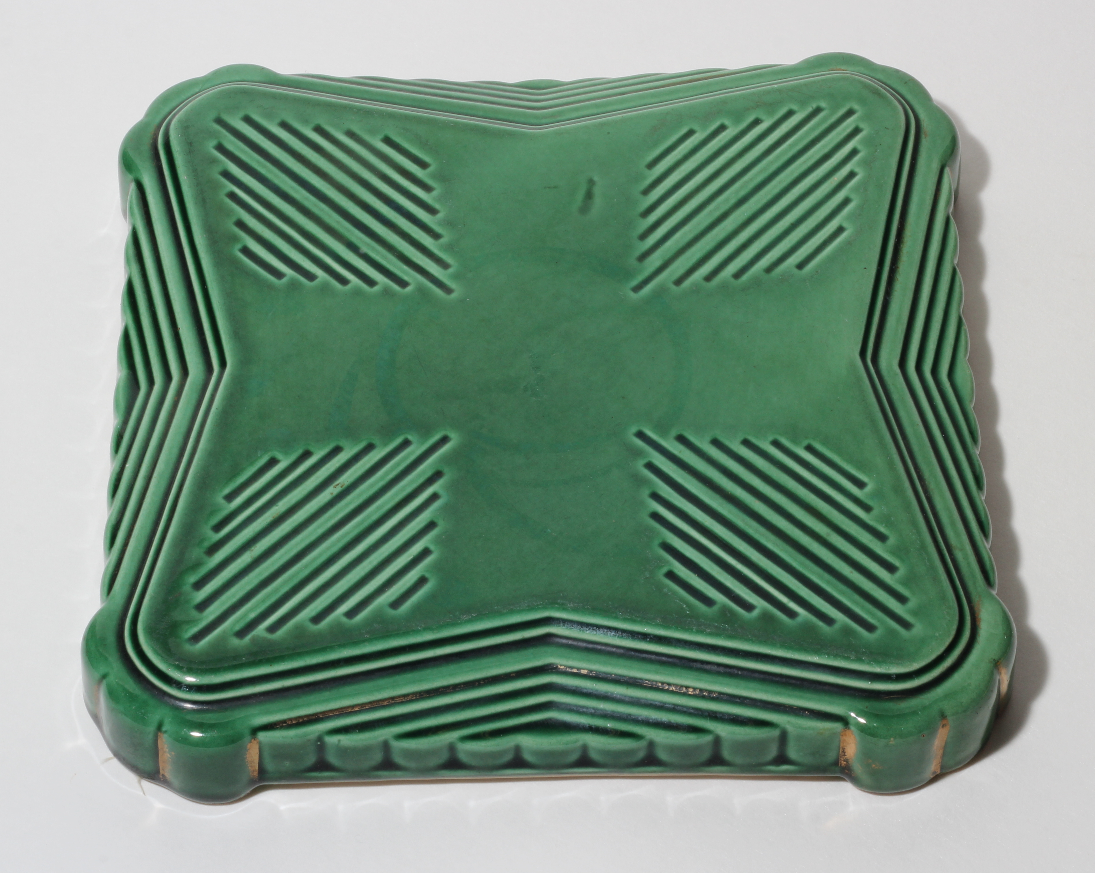 Art Deco trivet.